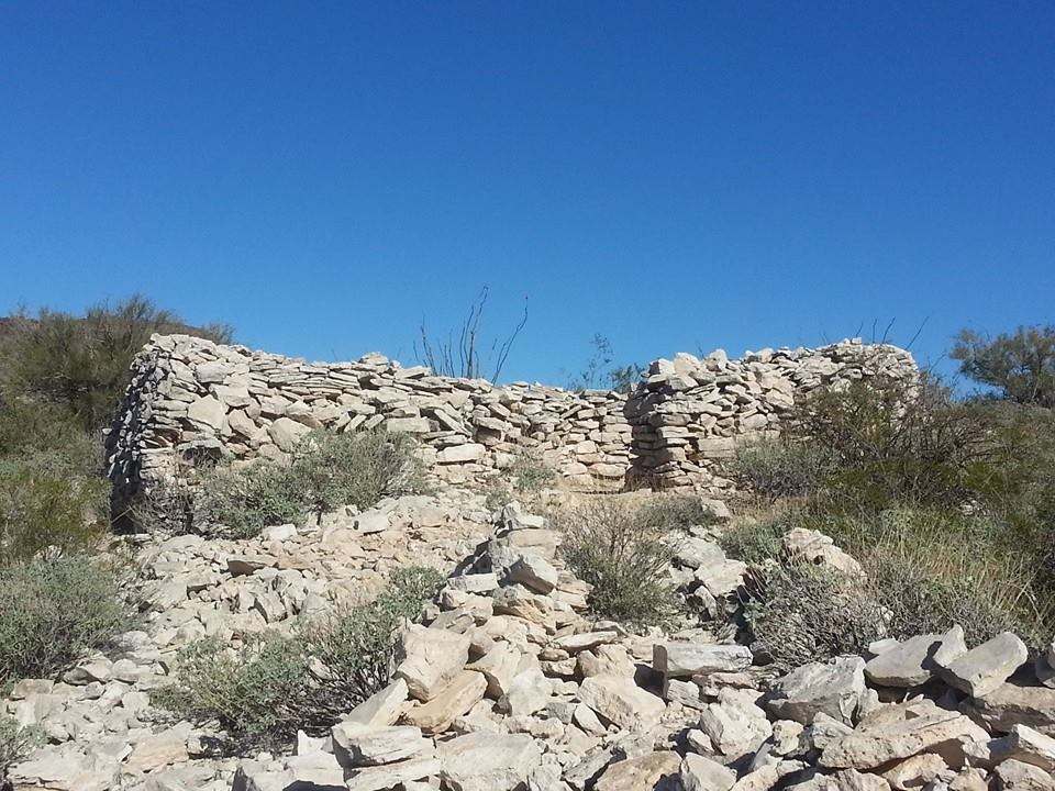 View 7 of the ruins of a village built by Hohokam Puebloans about 1000 years ago on top of Indian Mesa located at Lake Pleasant in Peoria, Arizona.